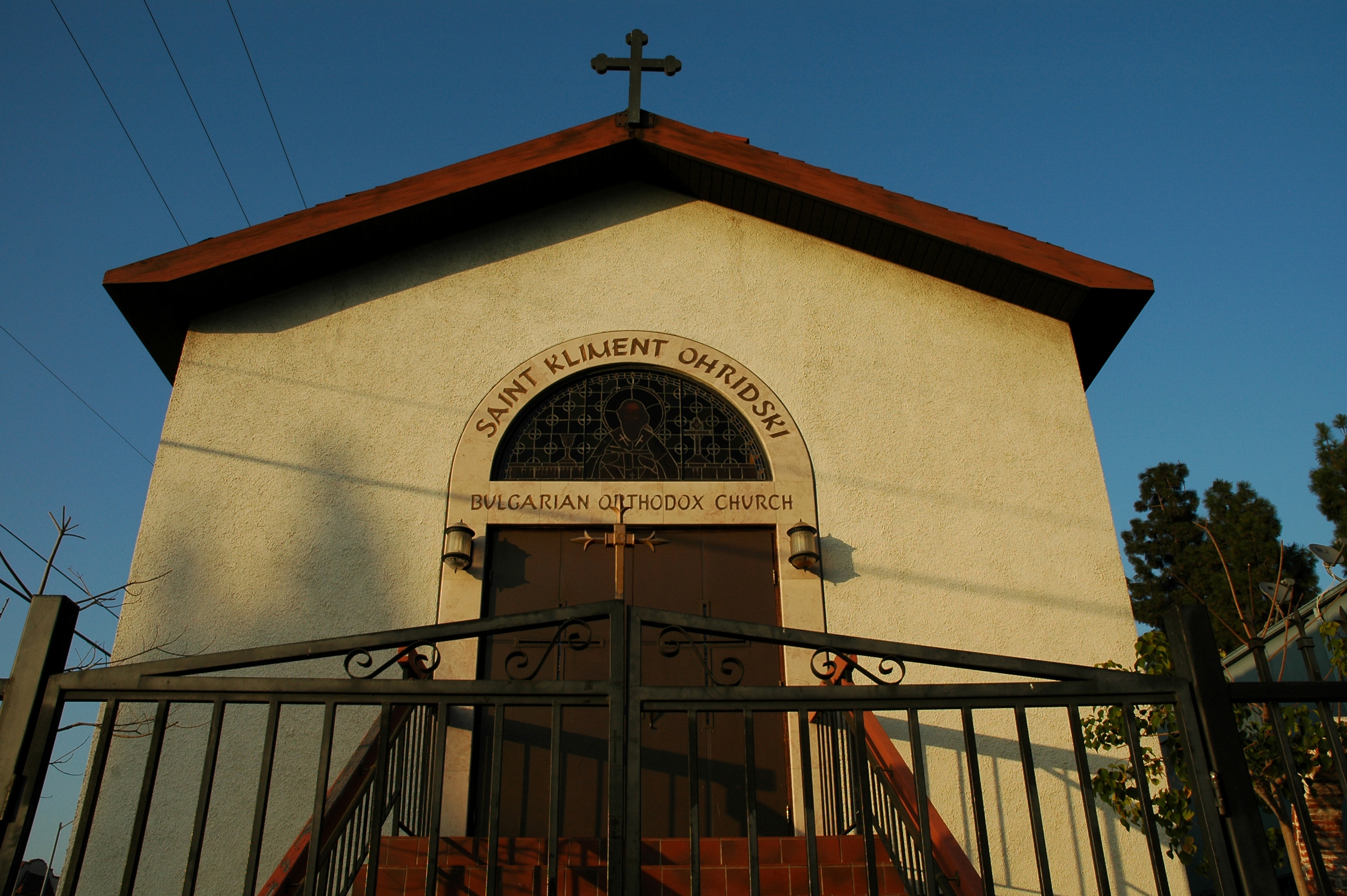 A Bulgarian church on Bronson Avenue near Santa Monica Boulavard.